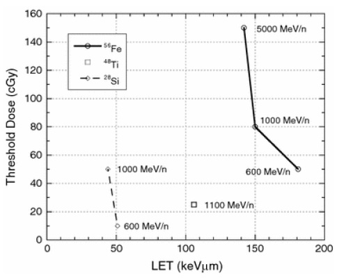 Figure 6-4. Radiation-induced disruption in CTA. This figure shows the relationship between exposure to different energies of 56FE and 28Si particles and the threshold dose for the disruption of amphetamine-induced CTA learning. Only a single energy of 48Ti particles was tested. The threshold dose (cGy) for the disruption of the response is plotted against particle LET (keV/μm) (Rabin et al., 2007). Other information Page 201